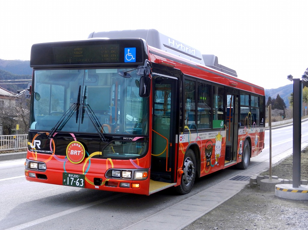 JR East Ofunato Line BRT bus (Hino Blue Ribbon City Hybrid Nonstep bus: LNG-HU8JLGP)